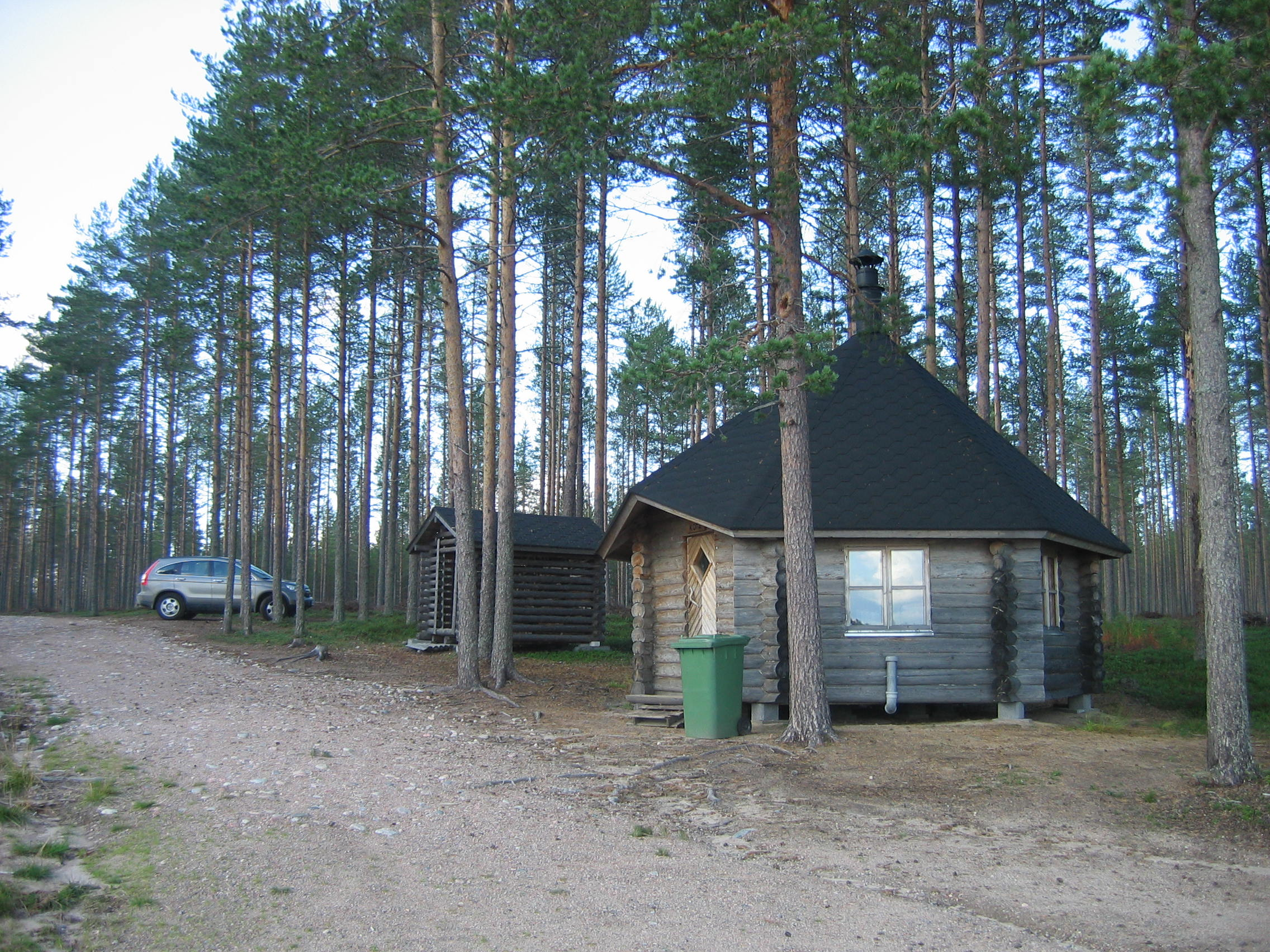 A hut and a wood shelter at the lake Pirttijärvi in Puolanka, Finland.